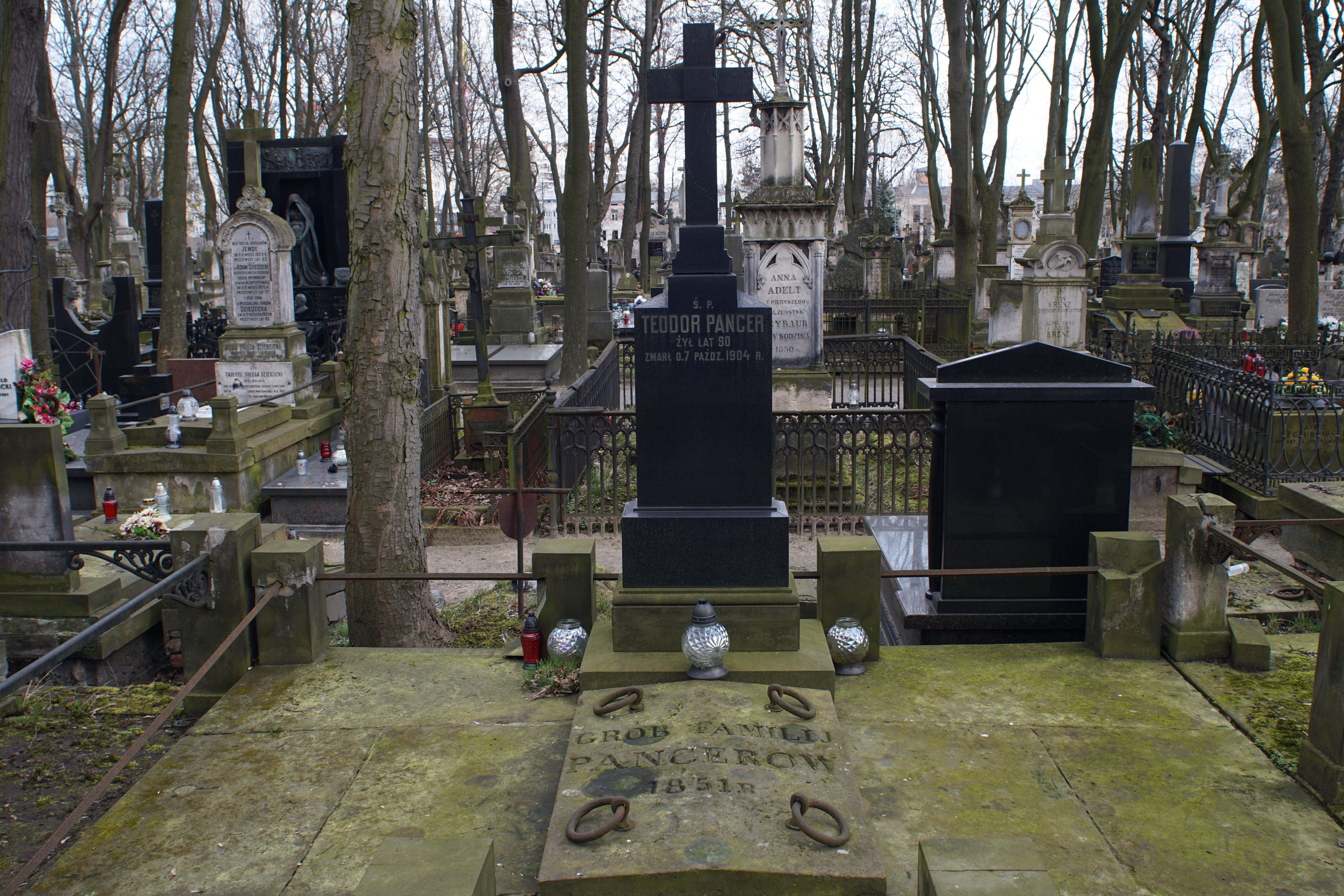 The grave of Felix Pancer at the Powązki Cemetery (section 2, row 4, grave 14, 15, 16)